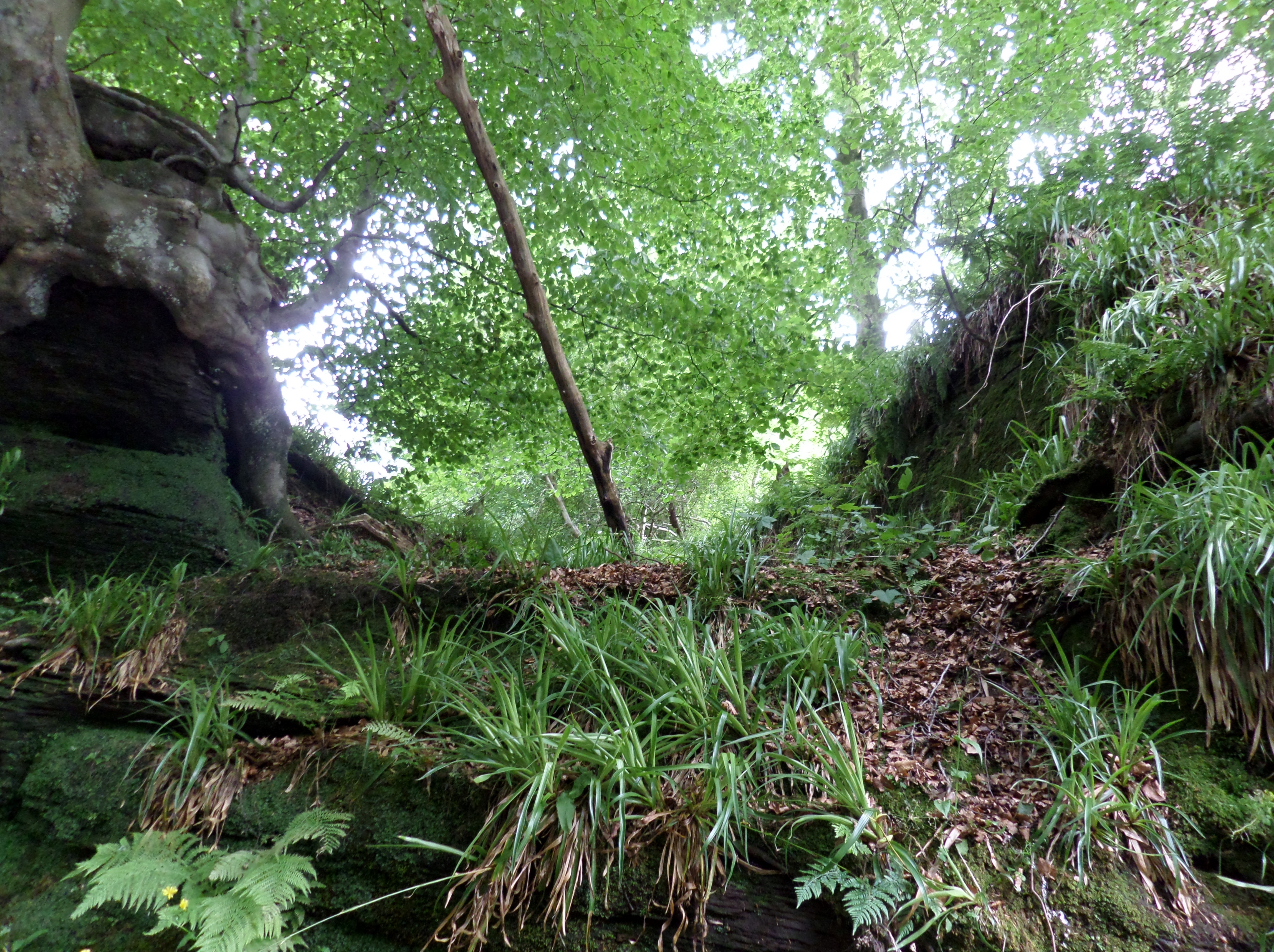 Peden's Cave stable and store, River Lugar, Auchenbay, East Ayrshire, Scotland. An apparently man made area next to the cave.